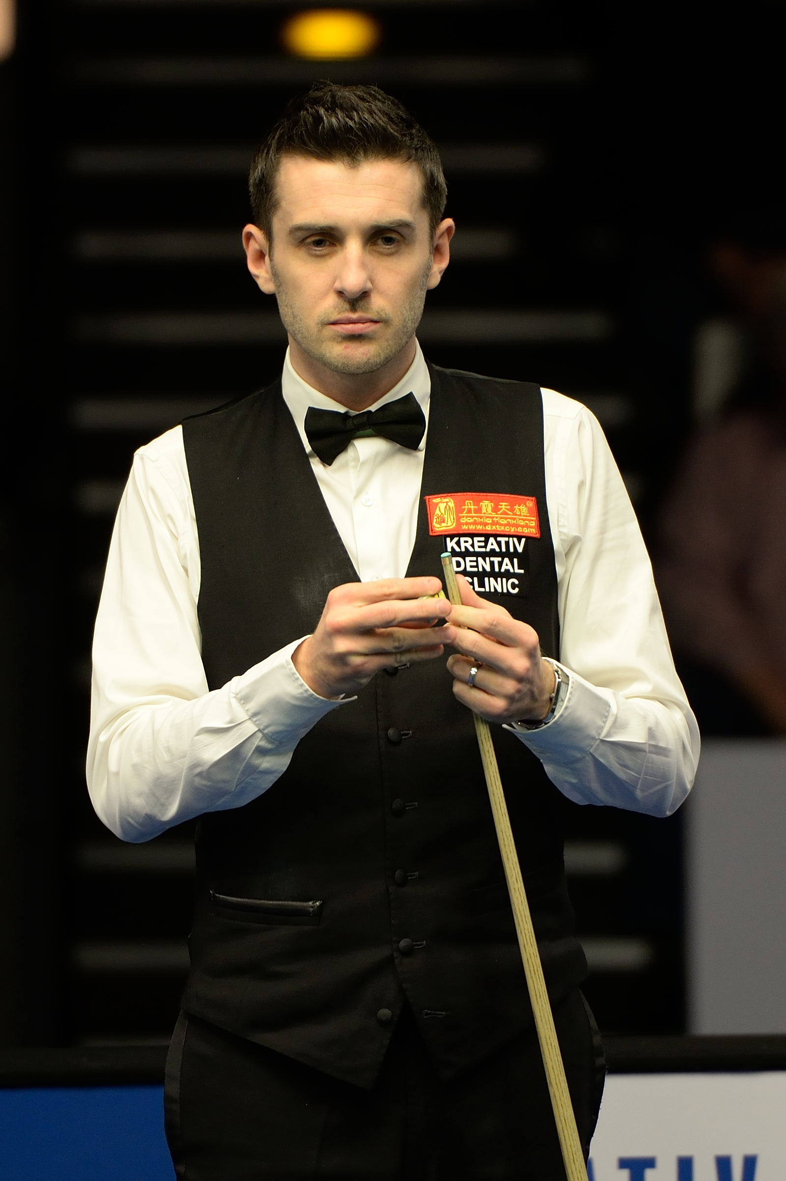 Picture taken in Berlin during the Snooker German Masters in 2015. Mark Selby.